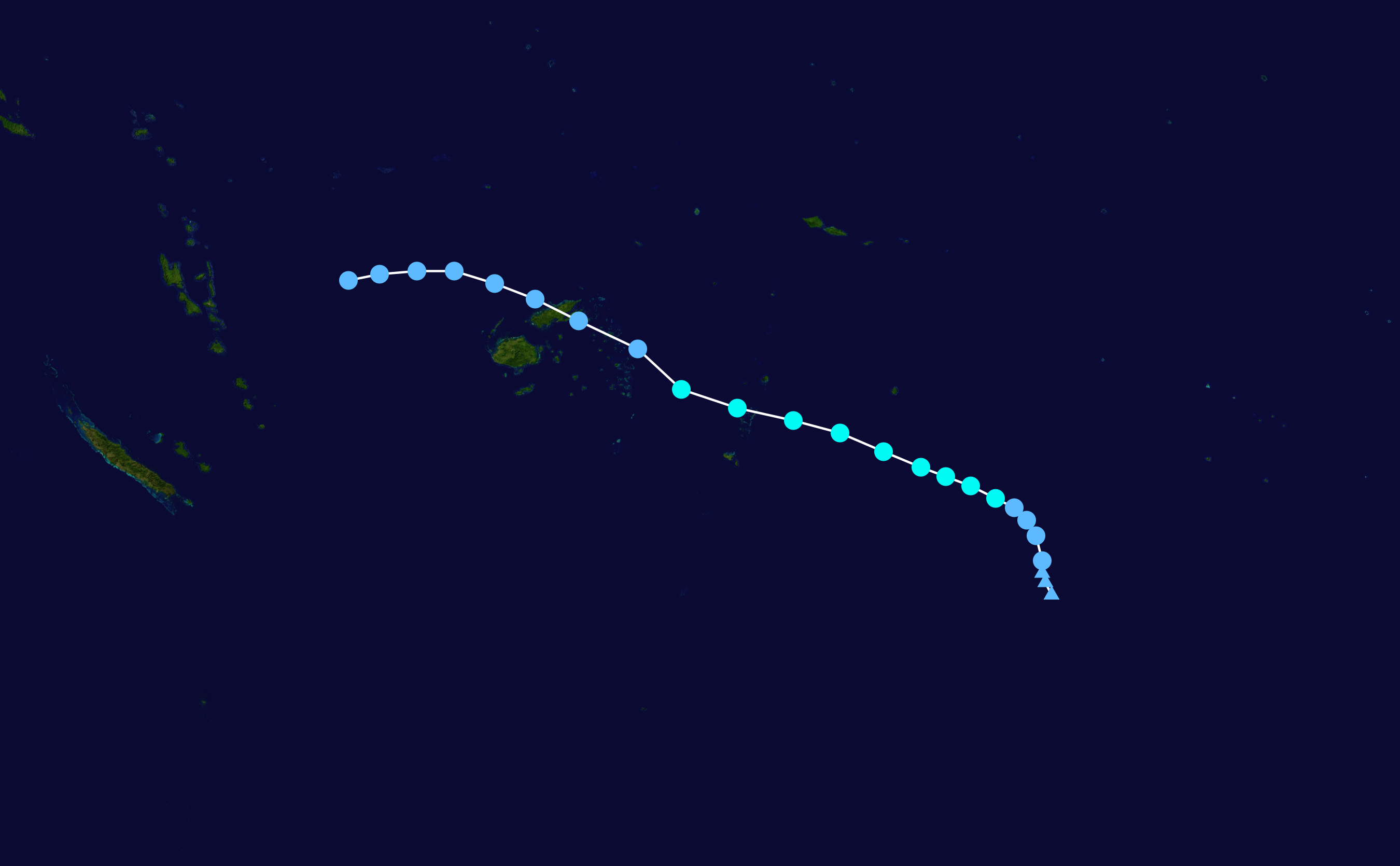 Cyclone Cilla (2003) track. Uses the color scheme from the Saffir-Simpson Hurricane Scale.